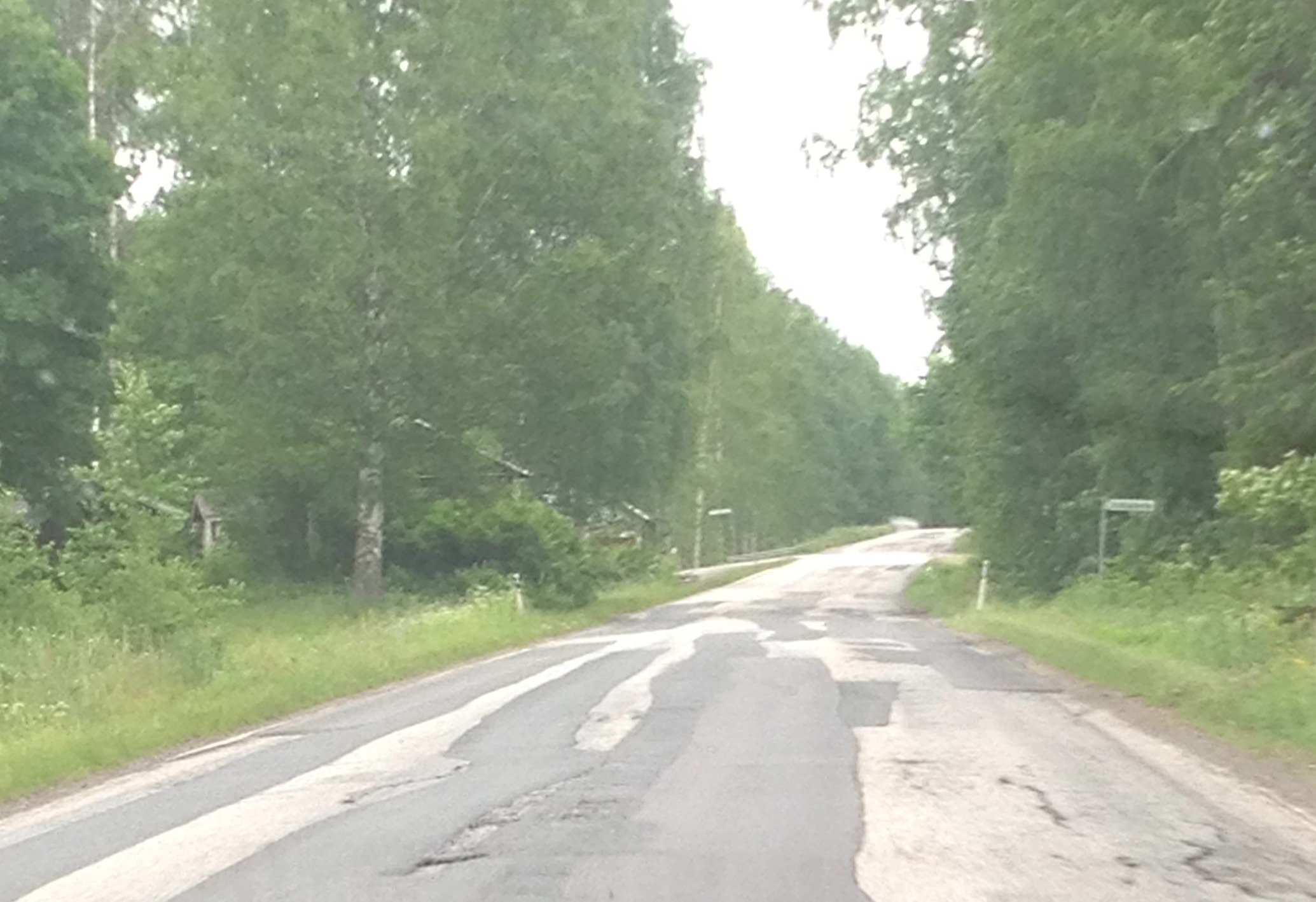 Regional road 431 in Hirvensalmi, Finland.